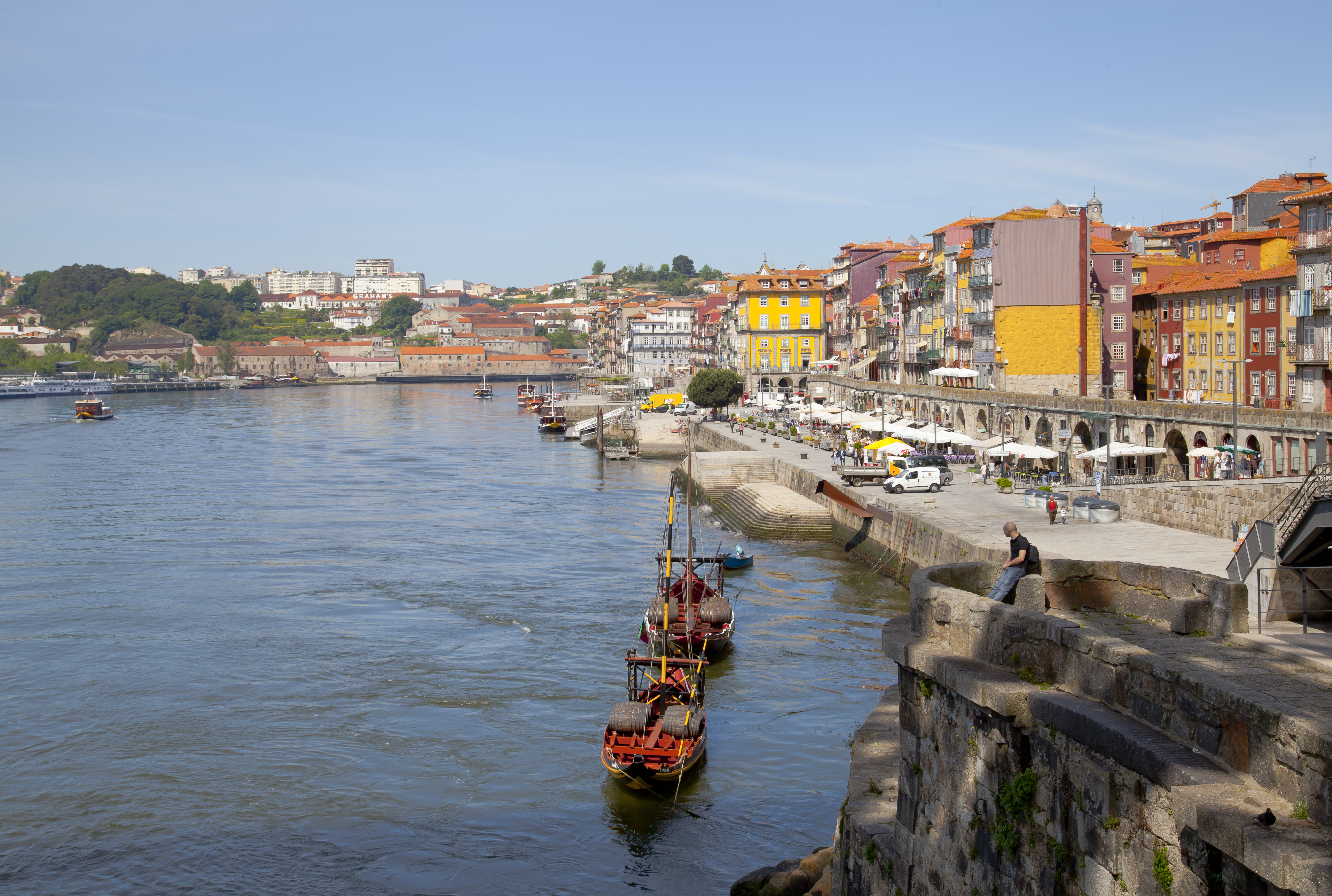 Cais da Ribeira, Porto, Portugal